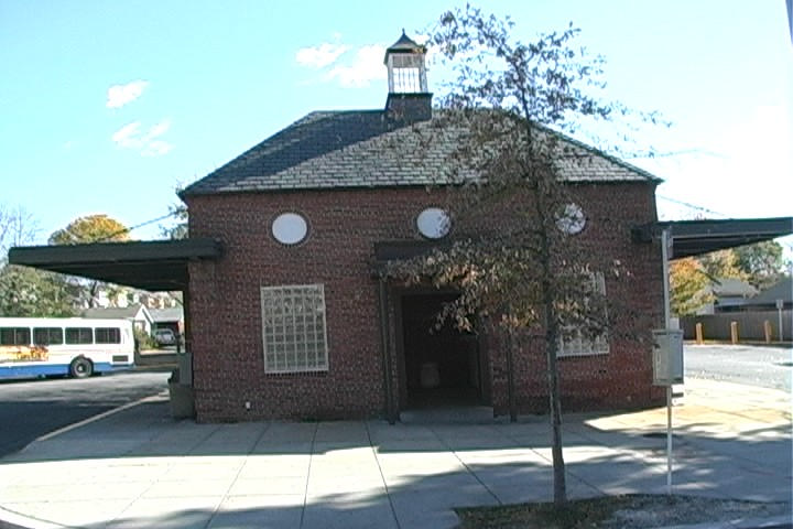 Old DC streetcar station at 14th and Colorado, NW.